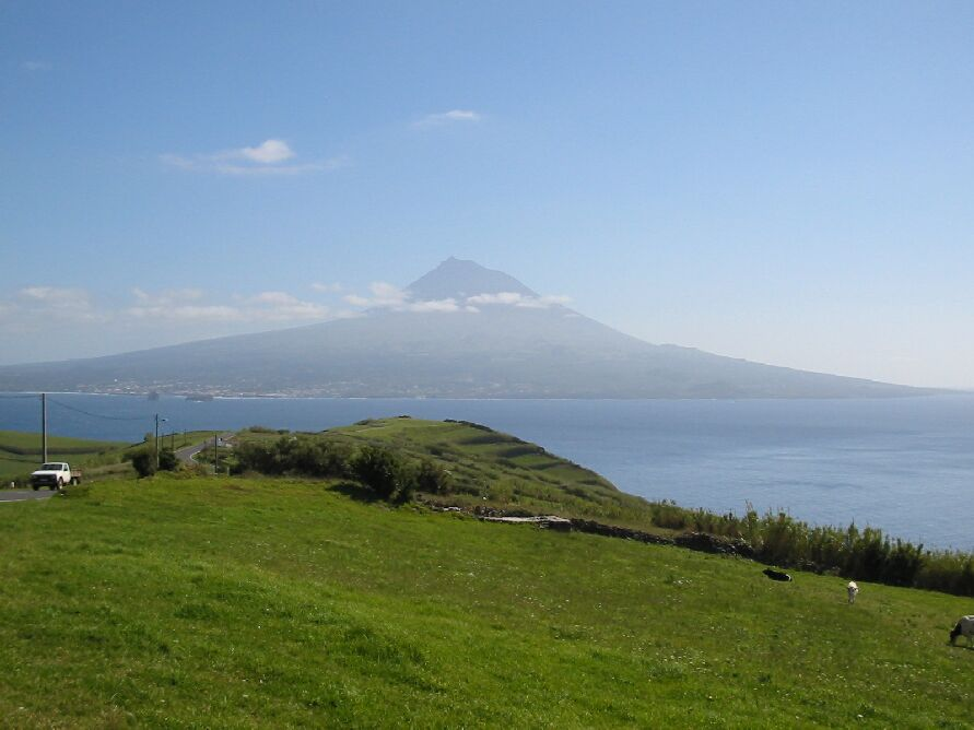 Pico seen from Faial